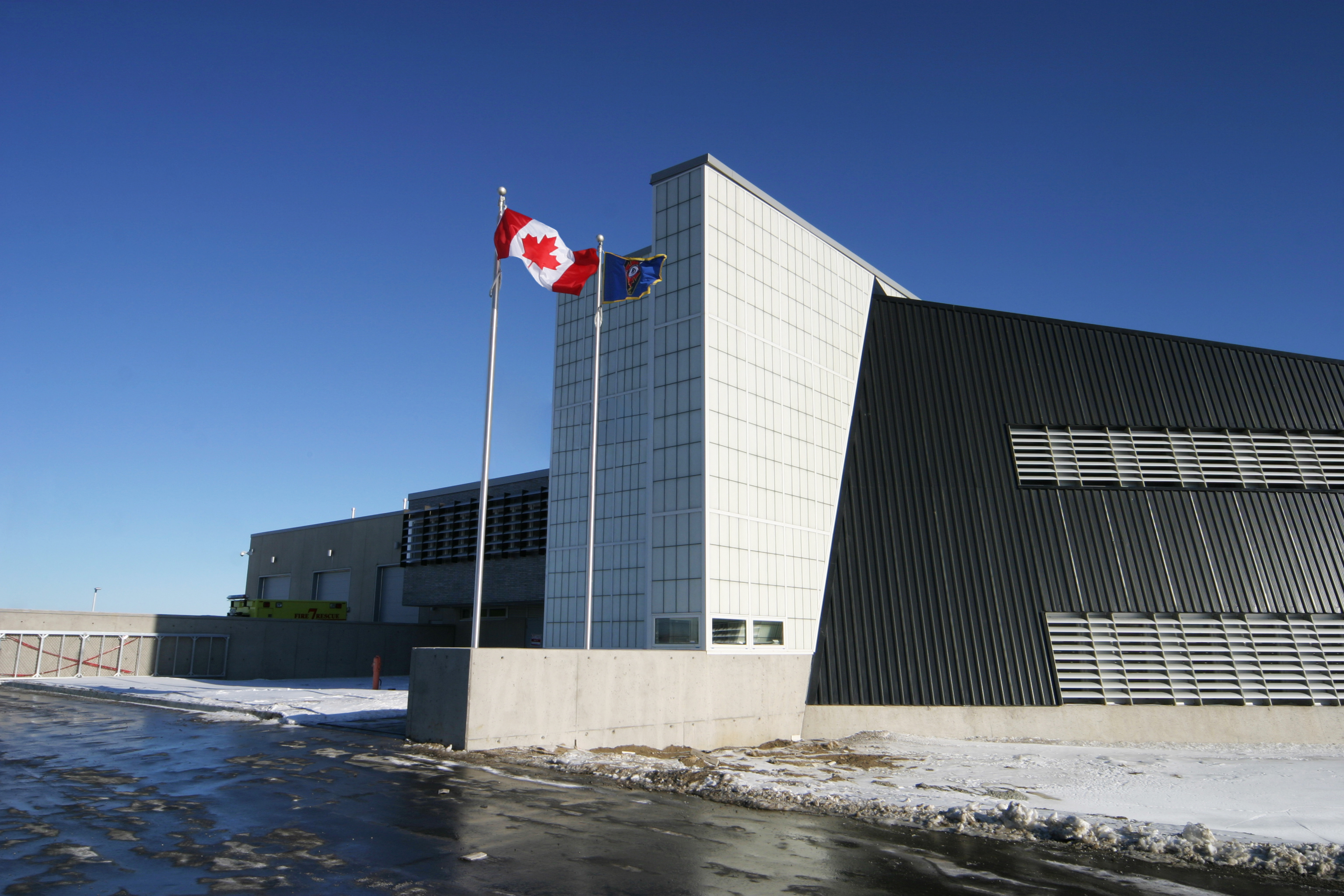 Greater Toronto Airport Authority - The Fire and Emergency Services Training Institute (FESTI), ON - Canada